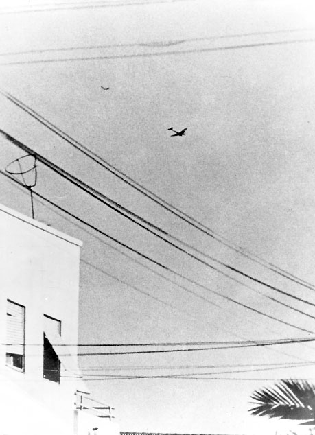 June 3, 1948, Modi Alon's Avia S.199 chases one of two Royal Egyptian Air Force C-47 which had been bombing Tel Aviv. Downing both, these are the Israeli Air Force's very first aerial victories